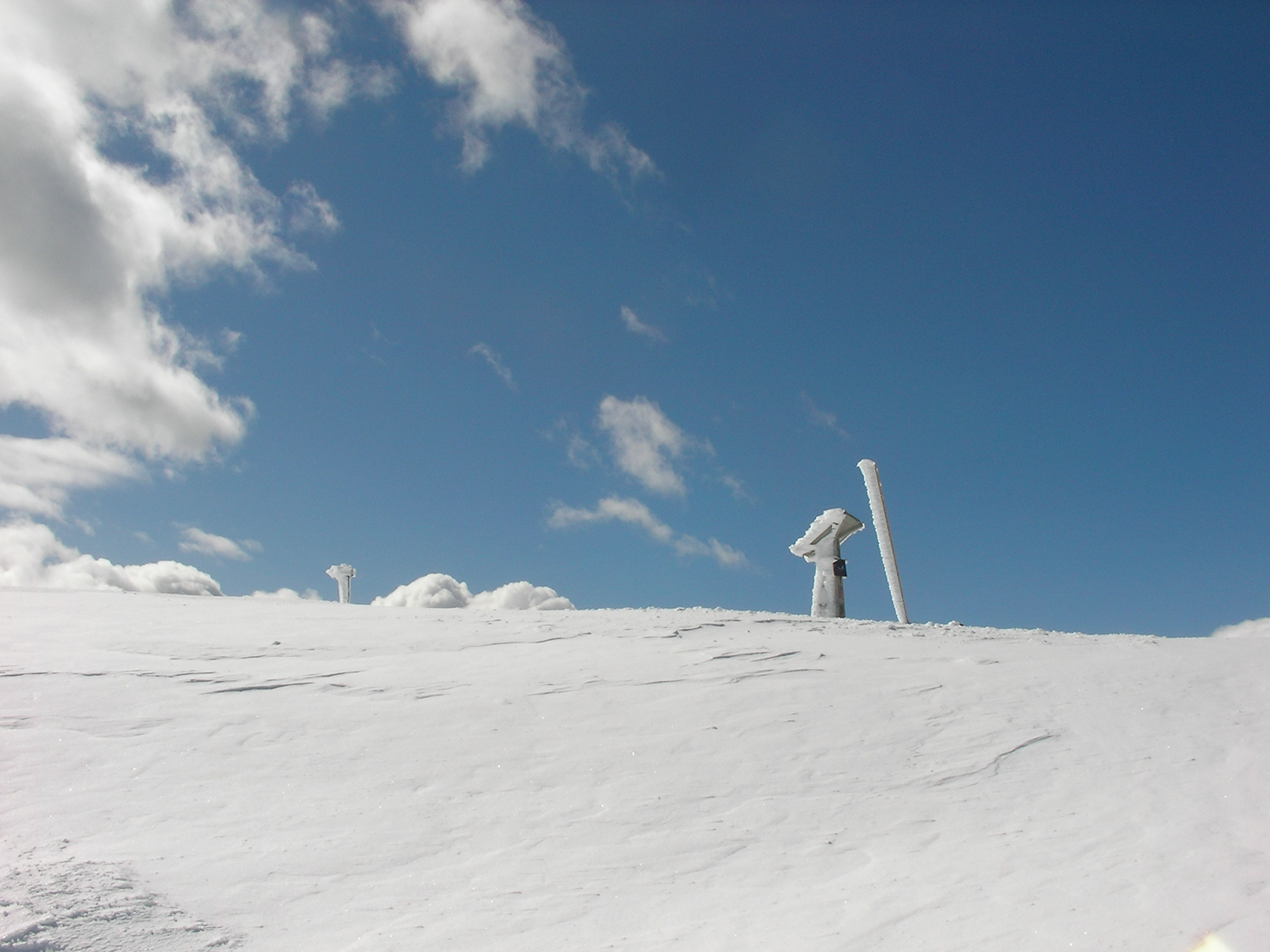 Balandrau peak, 2.585 mts, Catalonia